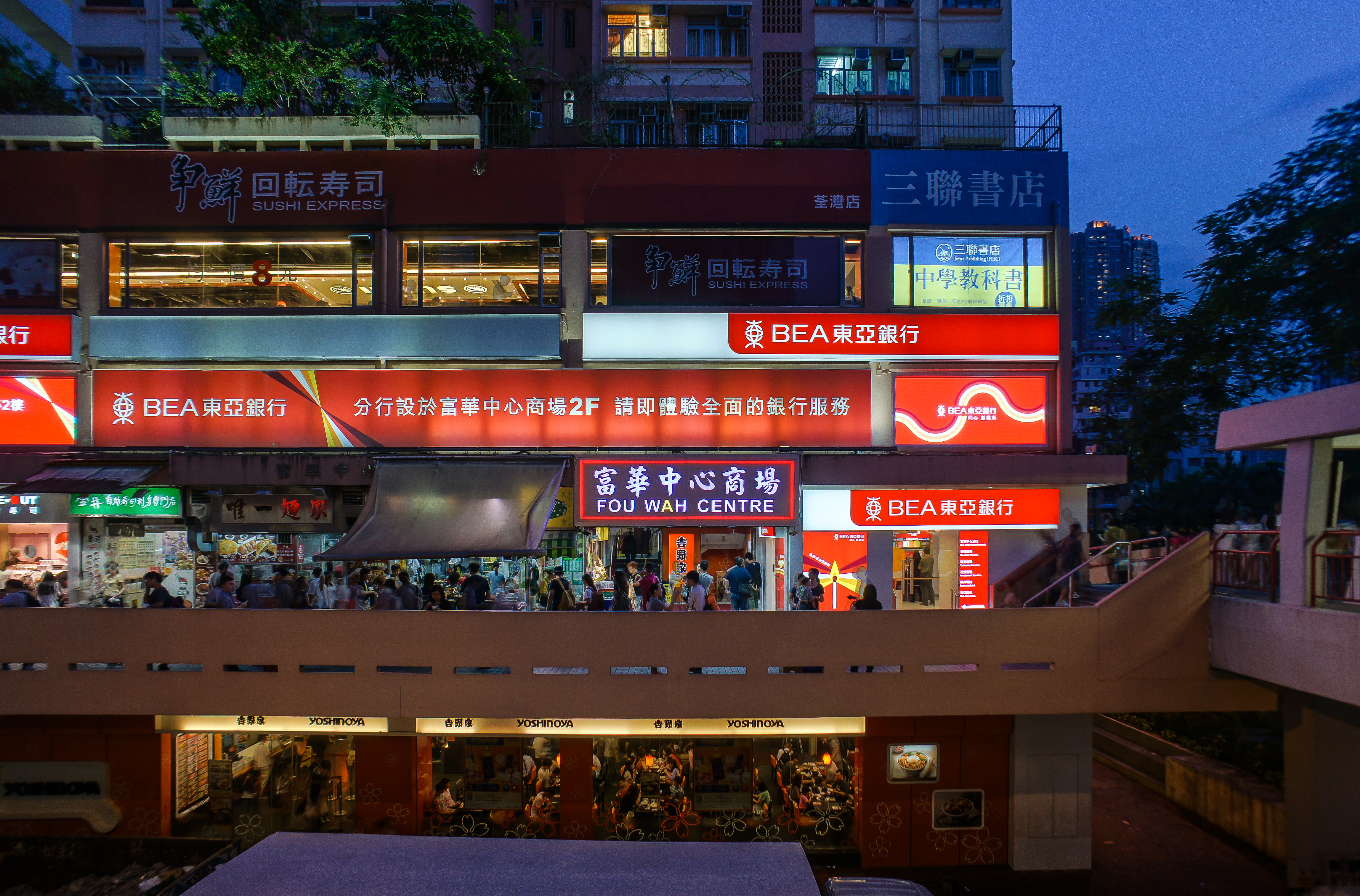 Fou Wah Centre, Tsuen Wan, Hong Kong.